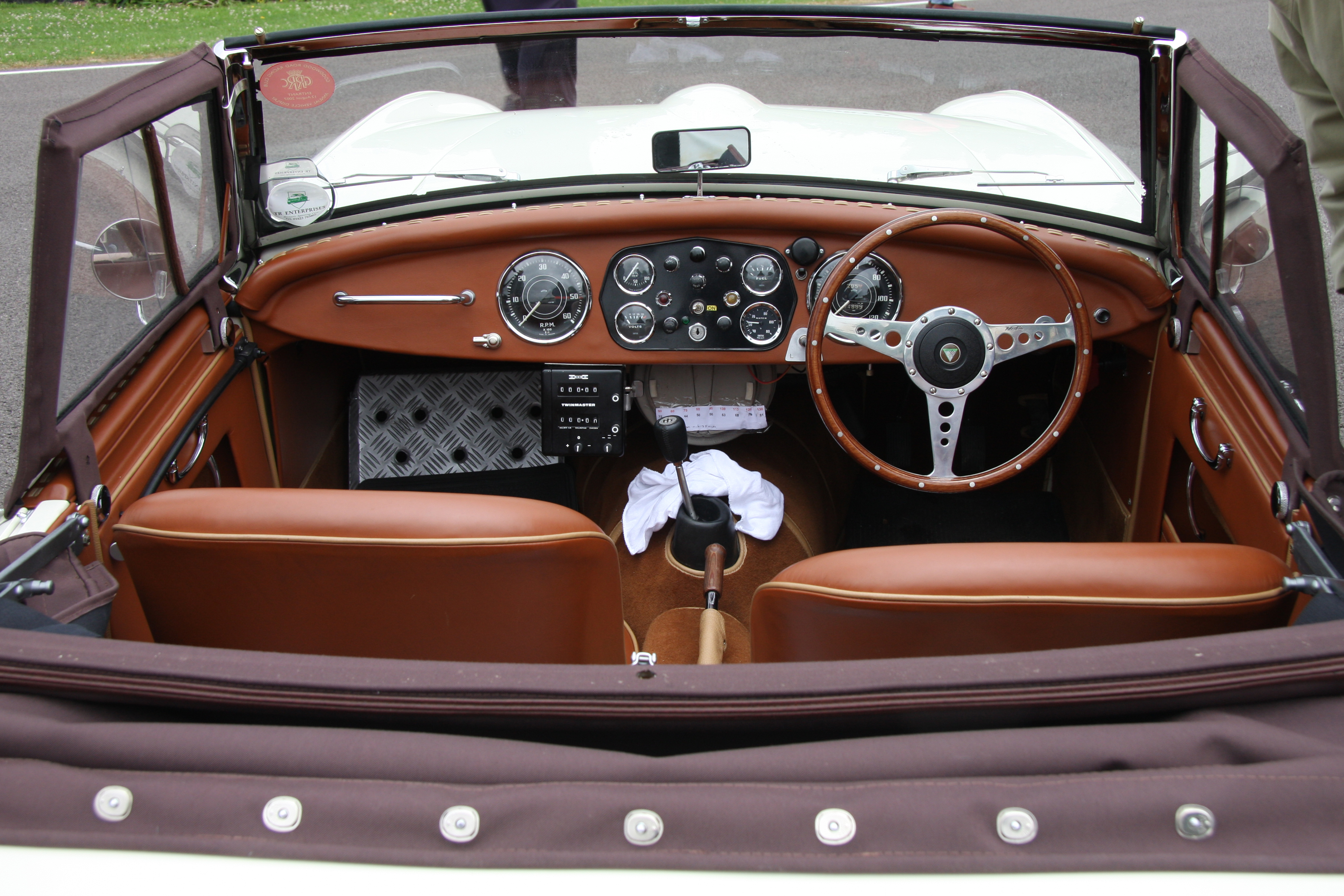 Swallow Doretti